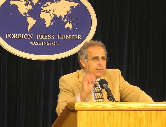 Pollster John Zogby, president and founder of Zogby International, delivering a briefing on "Preview of the 2006 Midterm Elections" in Washington, D.C.